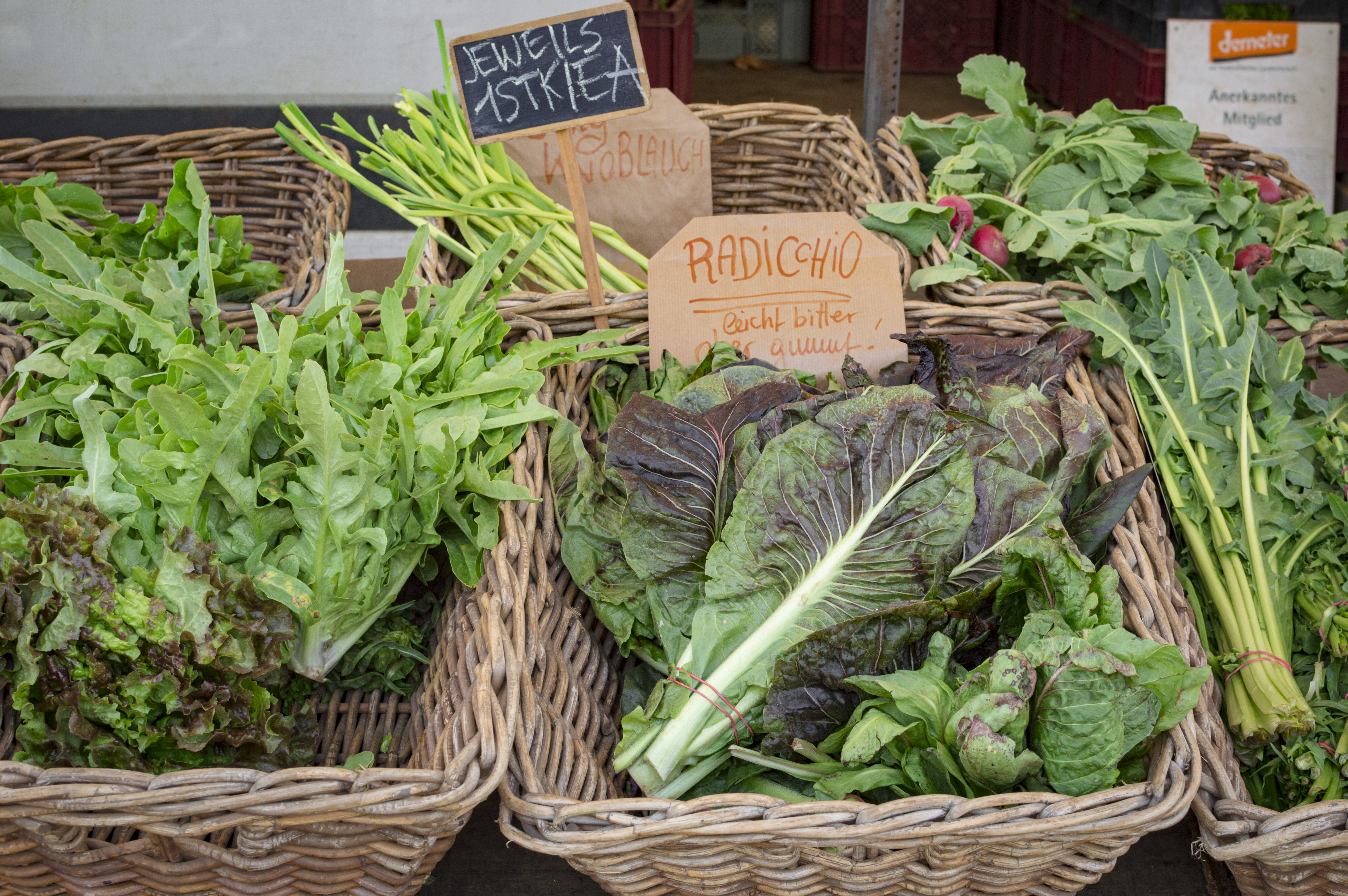 GeLa Ochsenherz CSA salad in spring